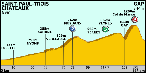 Profil of the 16th stage of the Tour de France 2011